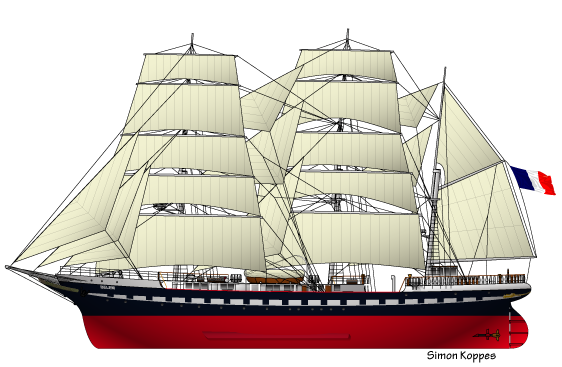 Drawing of the French sailing ship Belem